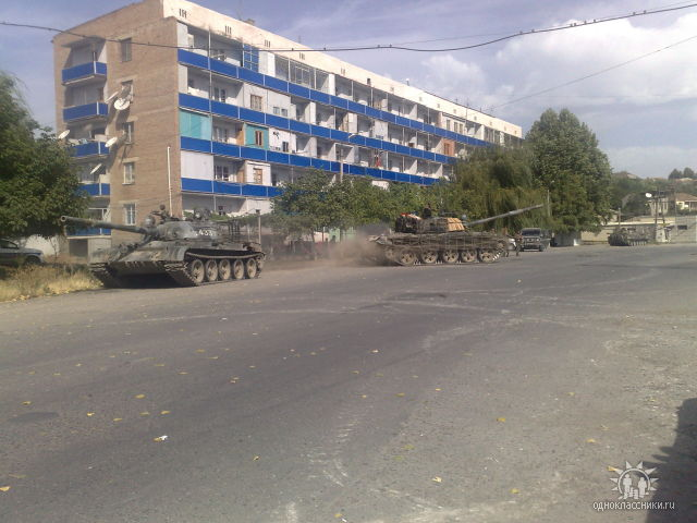 russians in kaspi